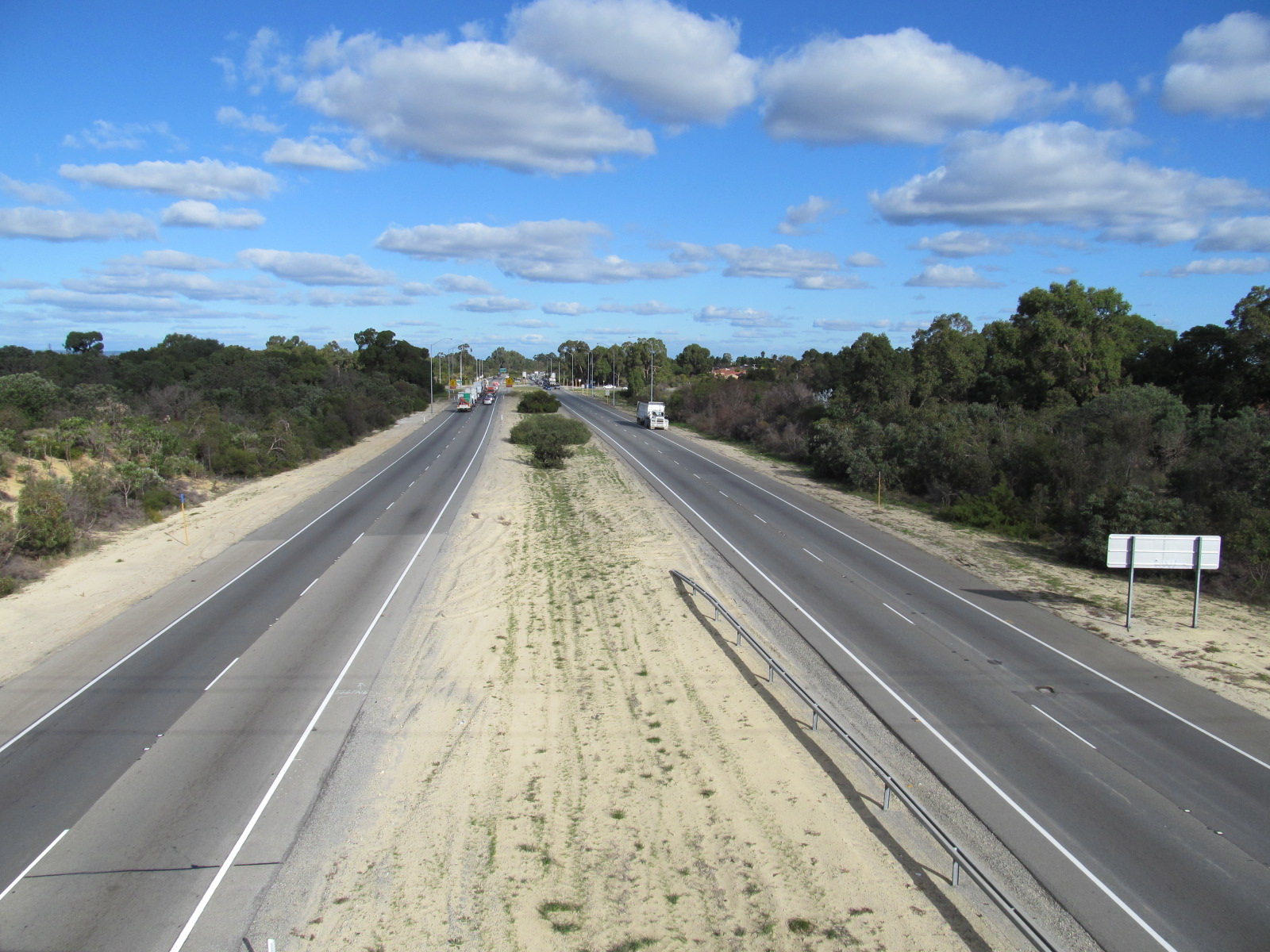 Tonkin Highway looking south from the Noranda footbridge.